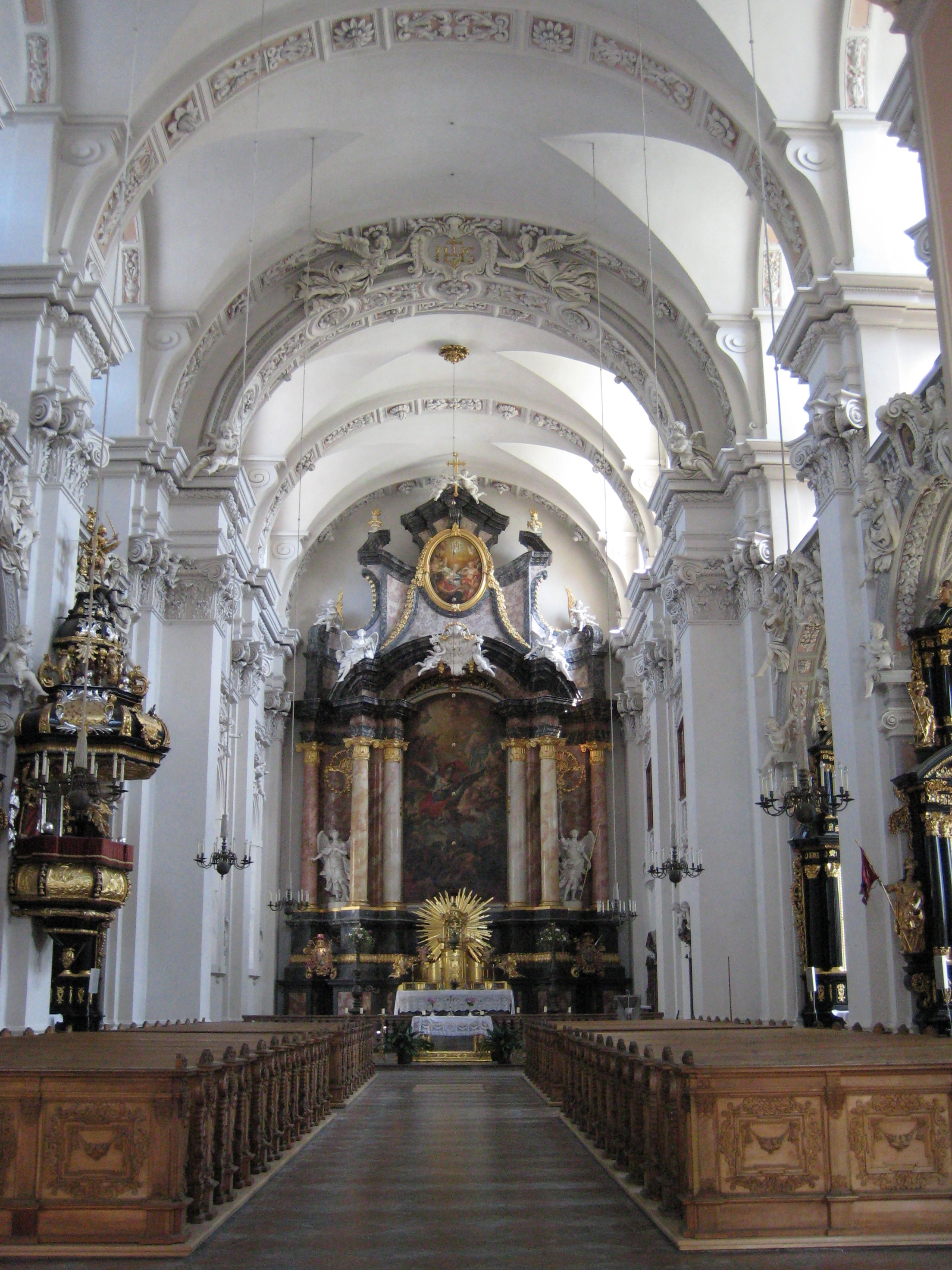 Interior of St. Michael, Passau